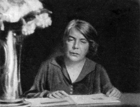 Grazia Deledda